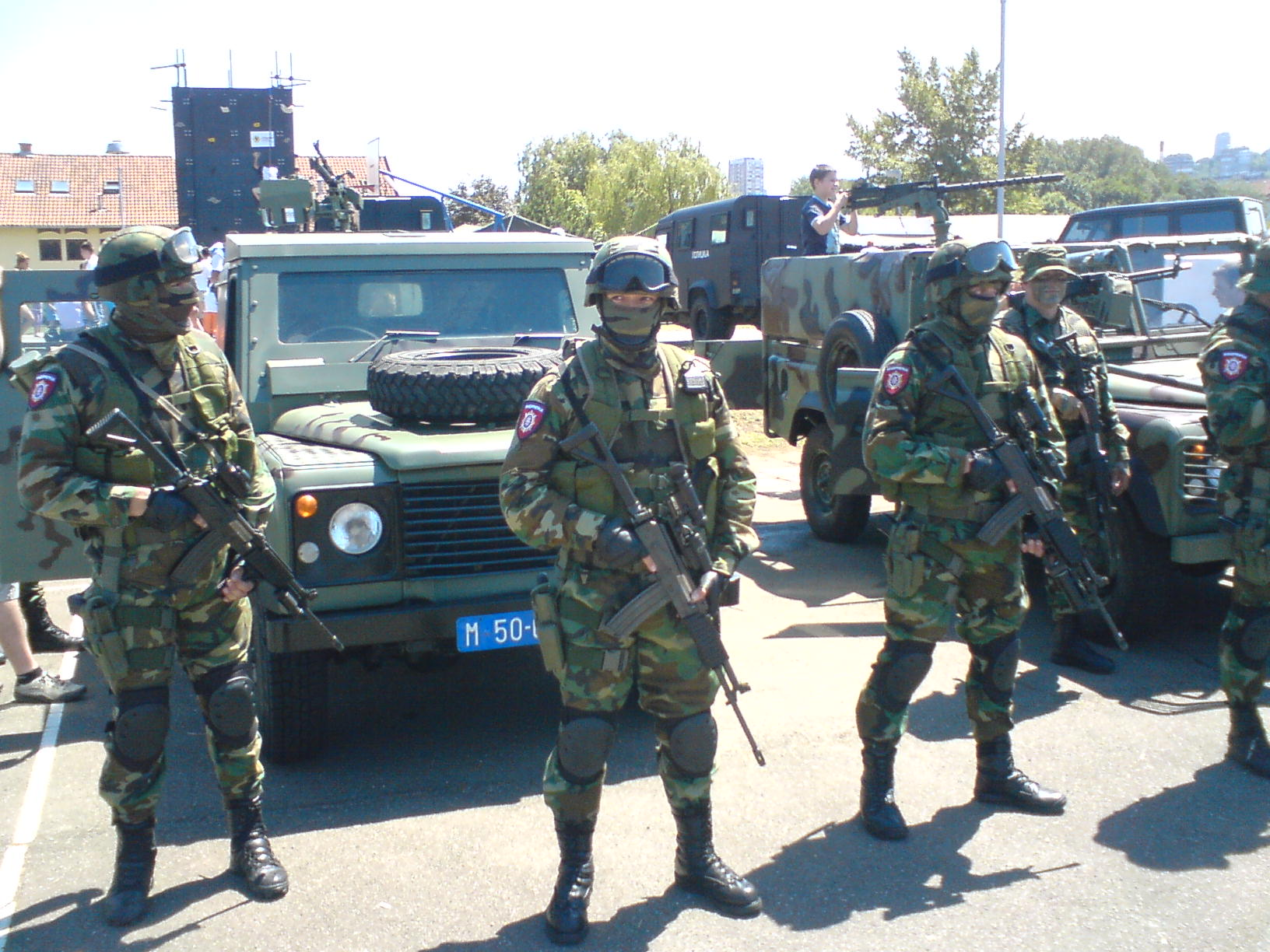 Members of Serbian Gendarmerie